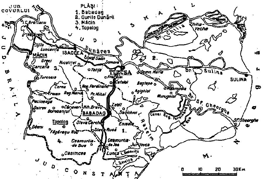 Map of Tulcea interwar county, Kingdom of Romania (1938).